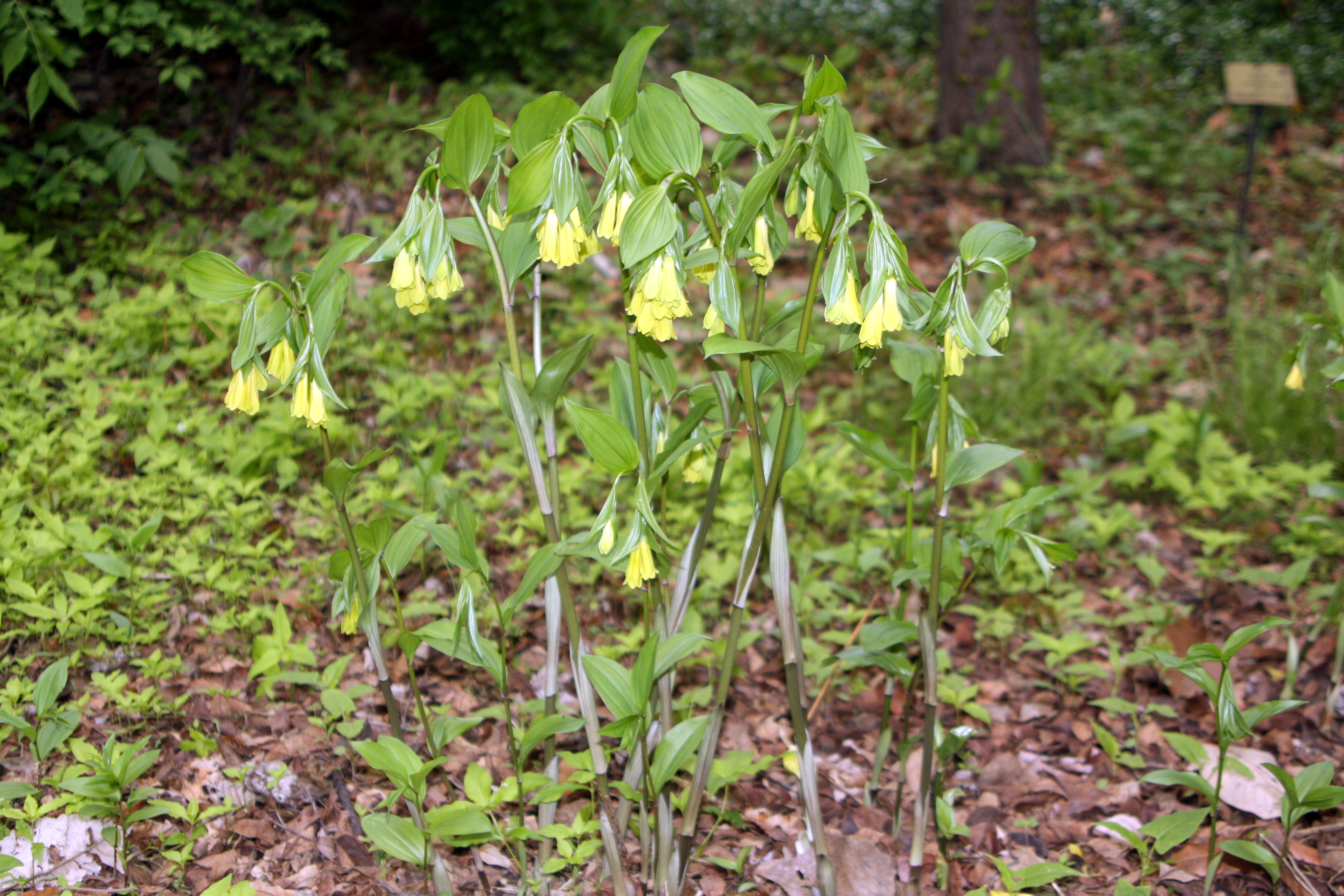 Disporum uniflorum in Seoul, Korea